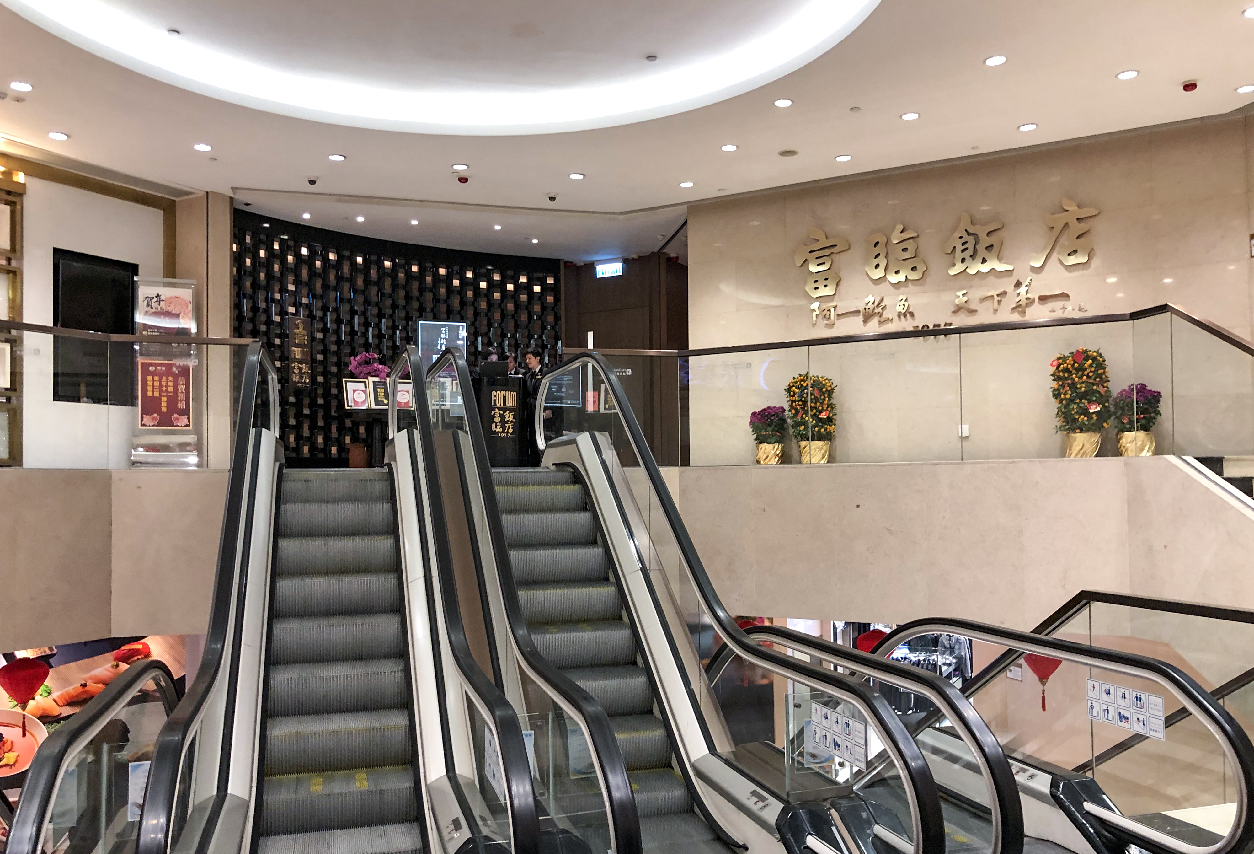 The so-called "Ah Yat Abalone" is here.